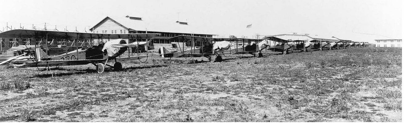 Curtiss JN-4D Jennys on the flightline at Penn Field, Austin, Texas